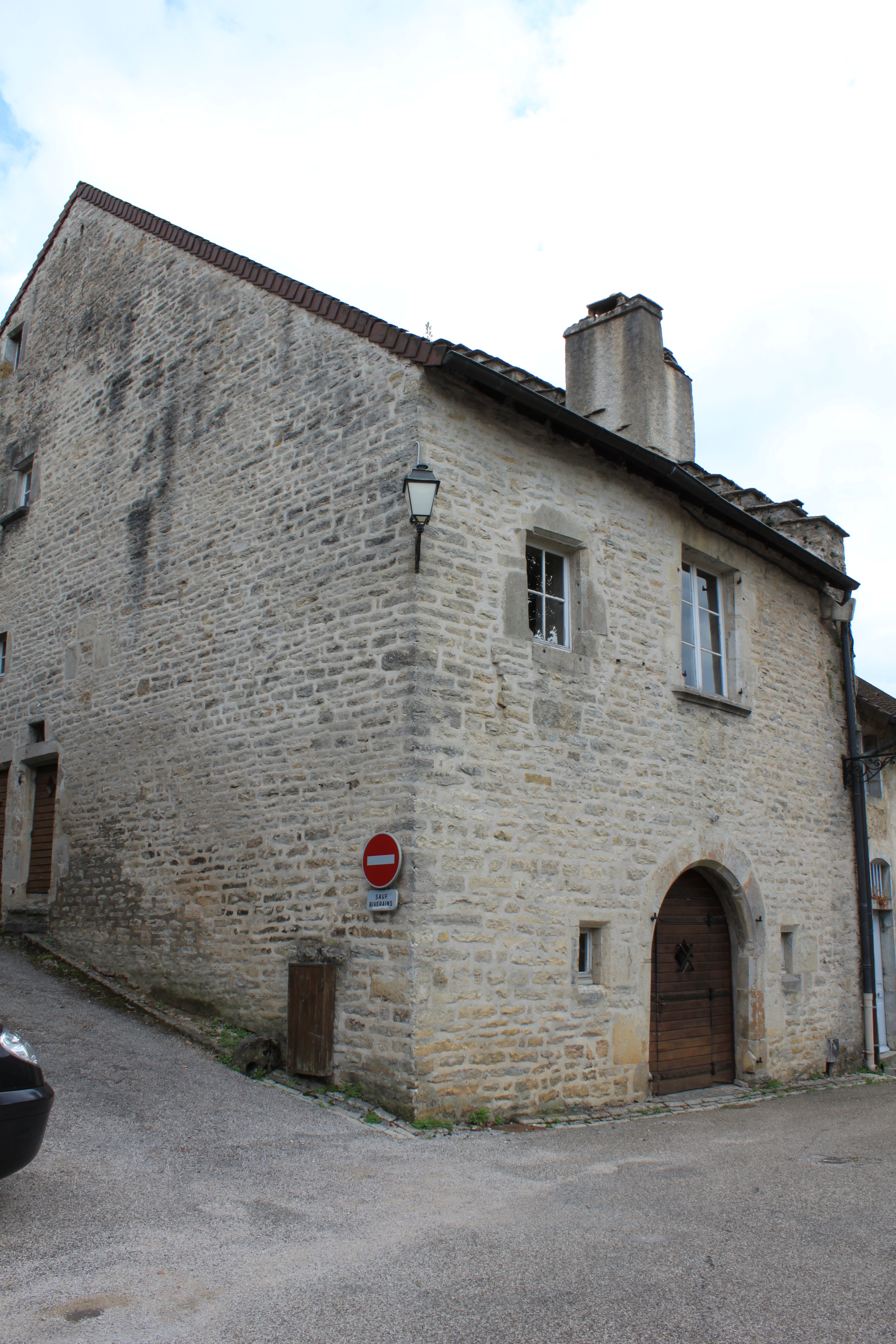 Château-Chalon, Jura, France